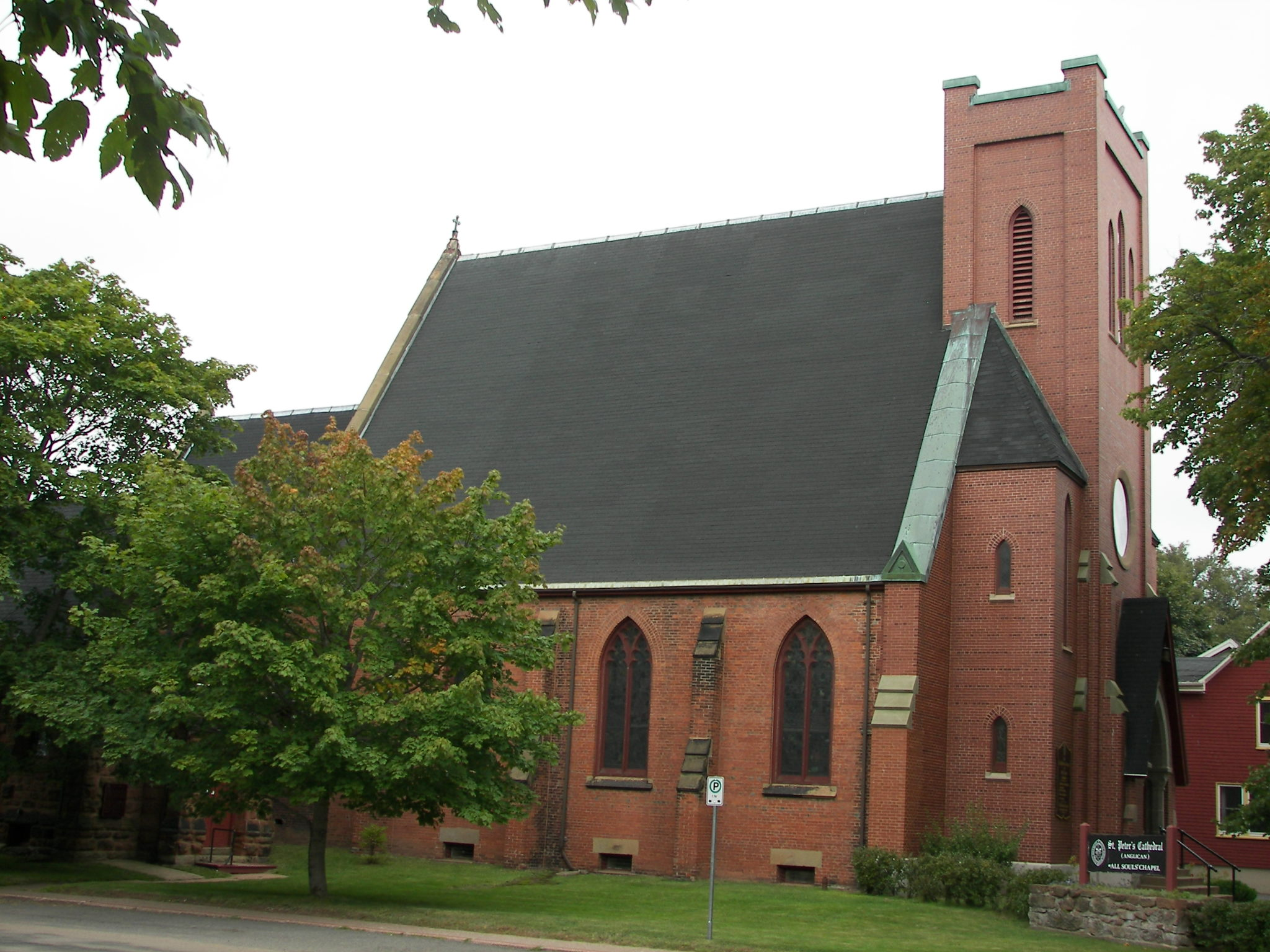 A view of St. Peter's Cathedral in Charlottetown, as seen from Rochford Street.